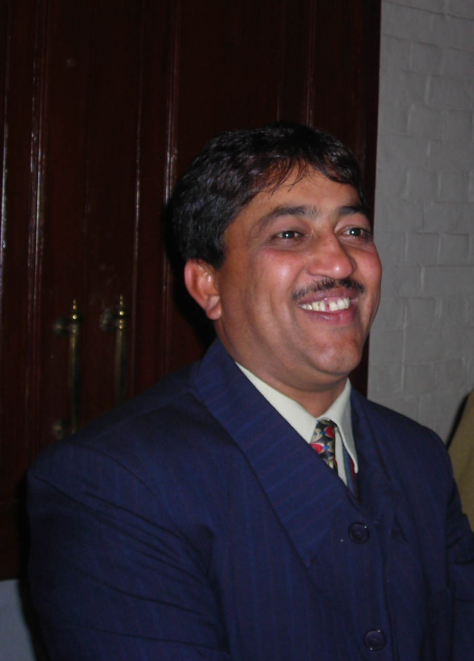 Prabhakar Dev Sharma in a program in Kathmandu in 2007.